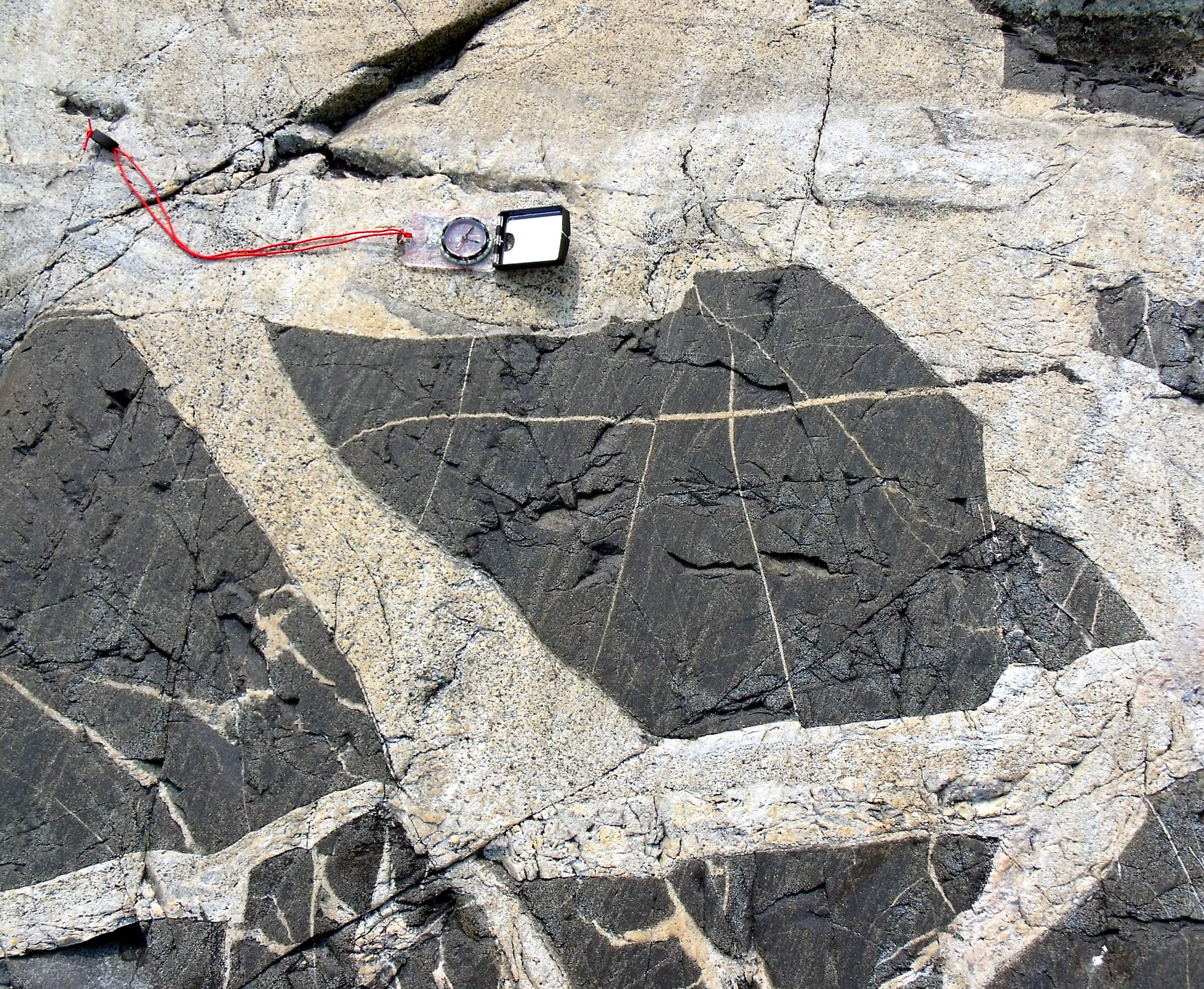 Divide and conquer, the stoping action of white granite intruding black basalt. Some sections of the give-and-take are up to 25 m wide along a 5 km long contact. The rocks are Precambrian or 3 billion years old. The near-vertical scatches = glacial striations (view large) are Quaternary or 10,000 years old.